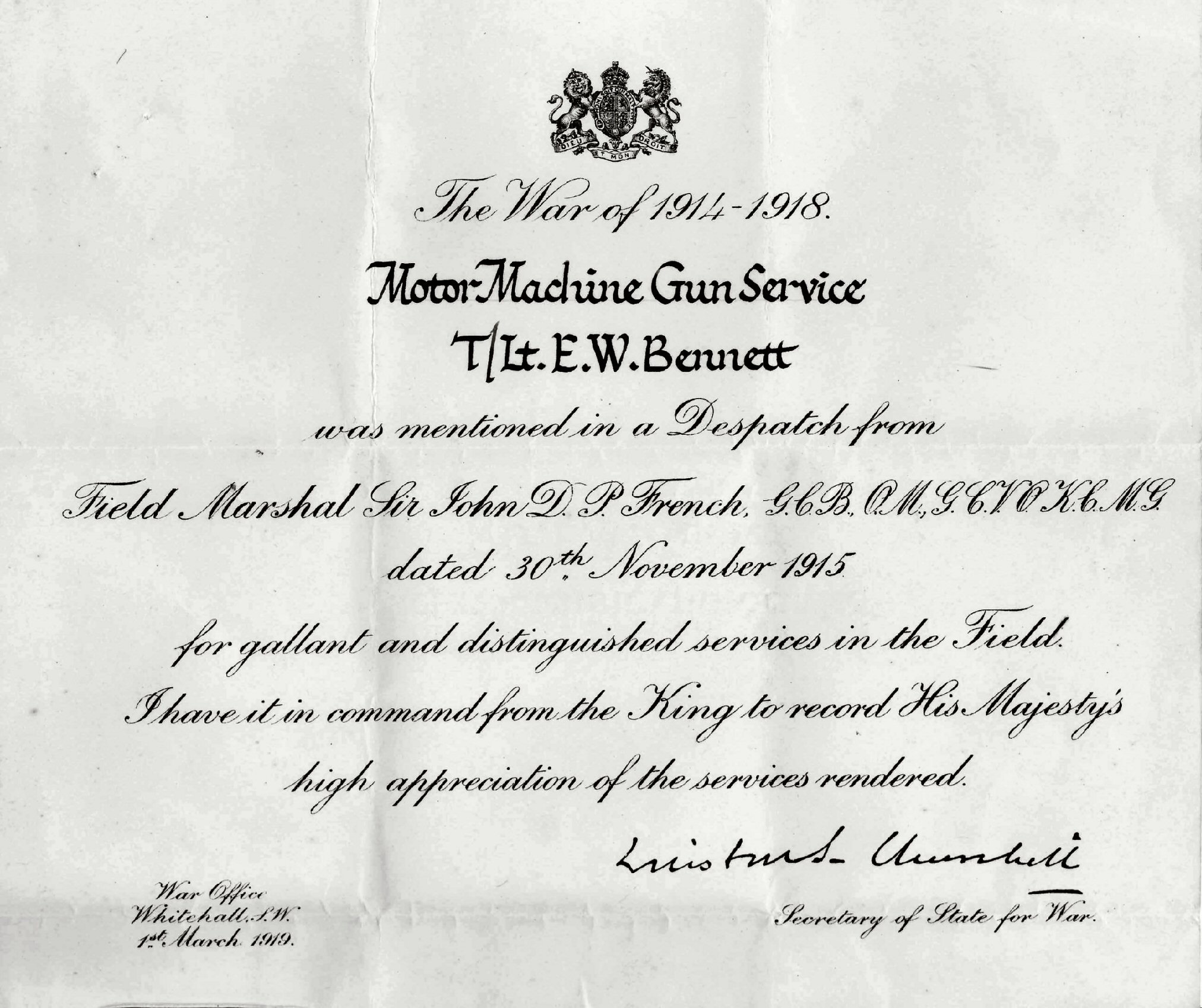 Edward William Bennett (1893-1970) The First World War 1914 -1918 Off to War? EWB with his 1912 T.T.Triumph Combination. Summer of 1914 EJB Feb 2009 Edward William Bennett’s Service 1914 - 1920 My father, Edward William Bennett, volunteered for service on the 7th of August 1914; just 3 days after war had been declared, aged 21.... Attacks carried on for several weeks, with further losses and no gains before petering out. What action the 14th MMGS saw during this time or what involvement Leiut.E.W.Bennett had in the battle is not known, however it must have been notable to be drawn to Sir John French’s attention, who mentioned him in his despatch of the 30th of November, resulting in the award of the Military Cross (MC) for gallantry in the field. Which he received from King George the Fifth at Buckingham Palace on the 2nd of March 1917.